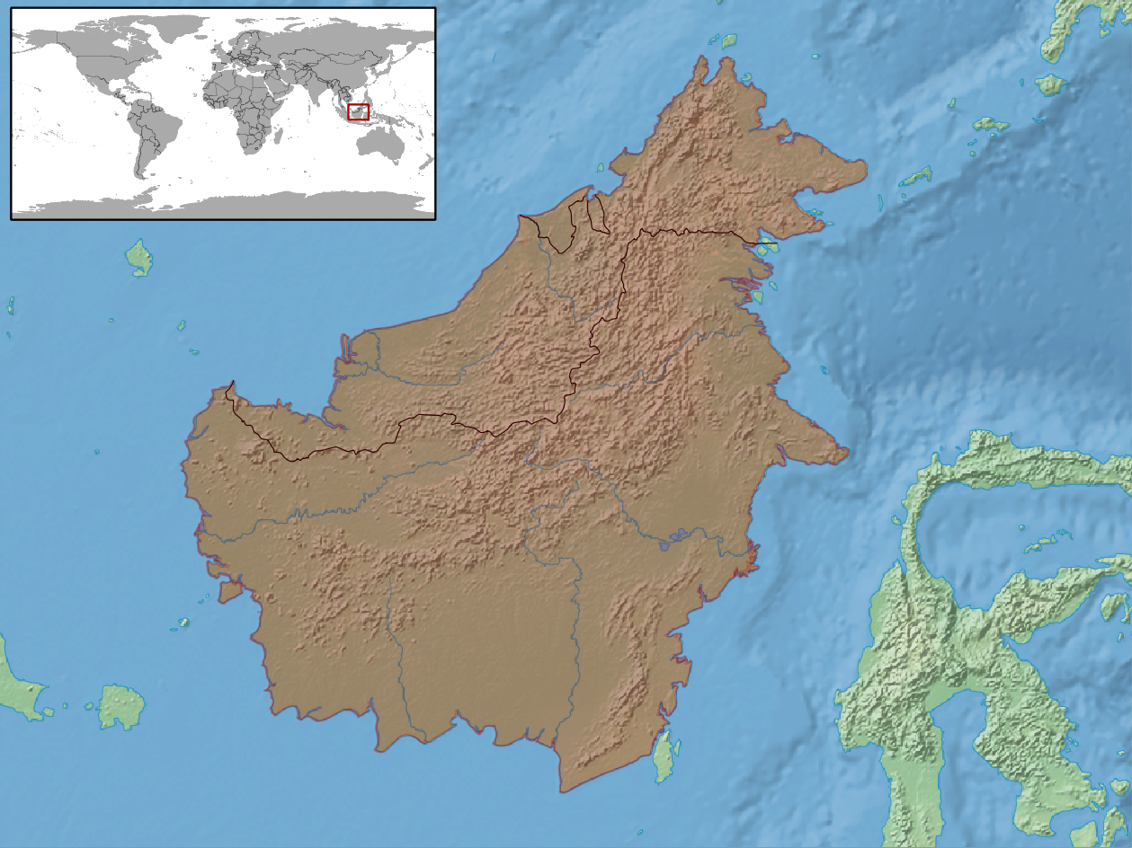 geographic distribution of Draco cornutus (Native: Brunei Darussalam; Indonesia (Kalimantan); Malaysia (Sabah, Sarawak))